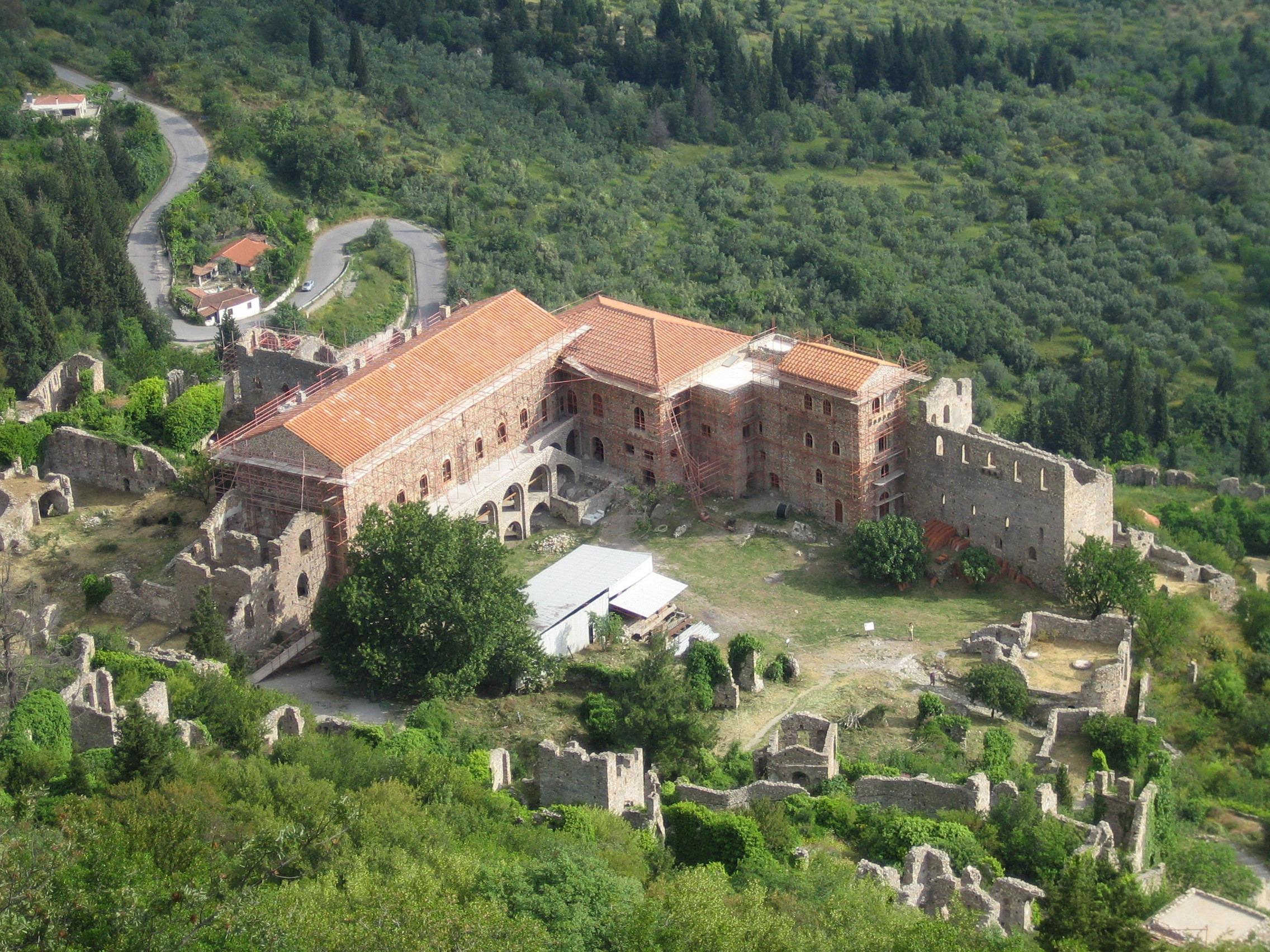 Palace of Mystras, Greece.